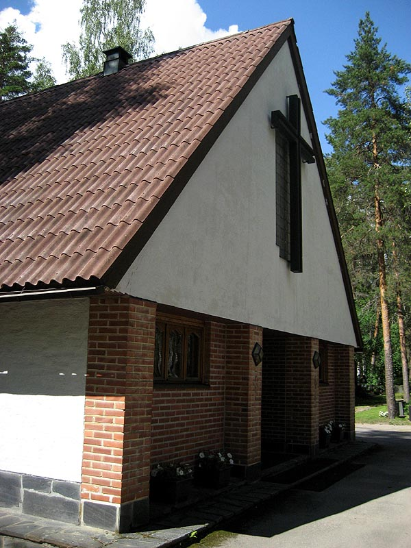 Cemetery chapel in Nastola, Finland